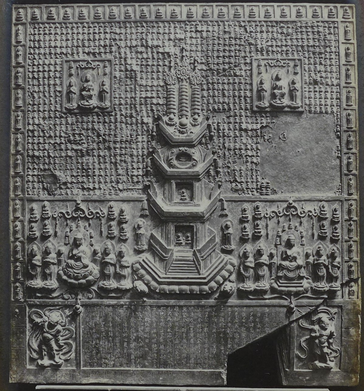 Bronze plaque depicting Shaka delivering a sermon. Casted and Beaten Bronze, Dated by cycle year: many scholars regard ACE698, 91cm (height) x 79cm (width). Hase-dera Temple, Sakurai, Nara , Japan